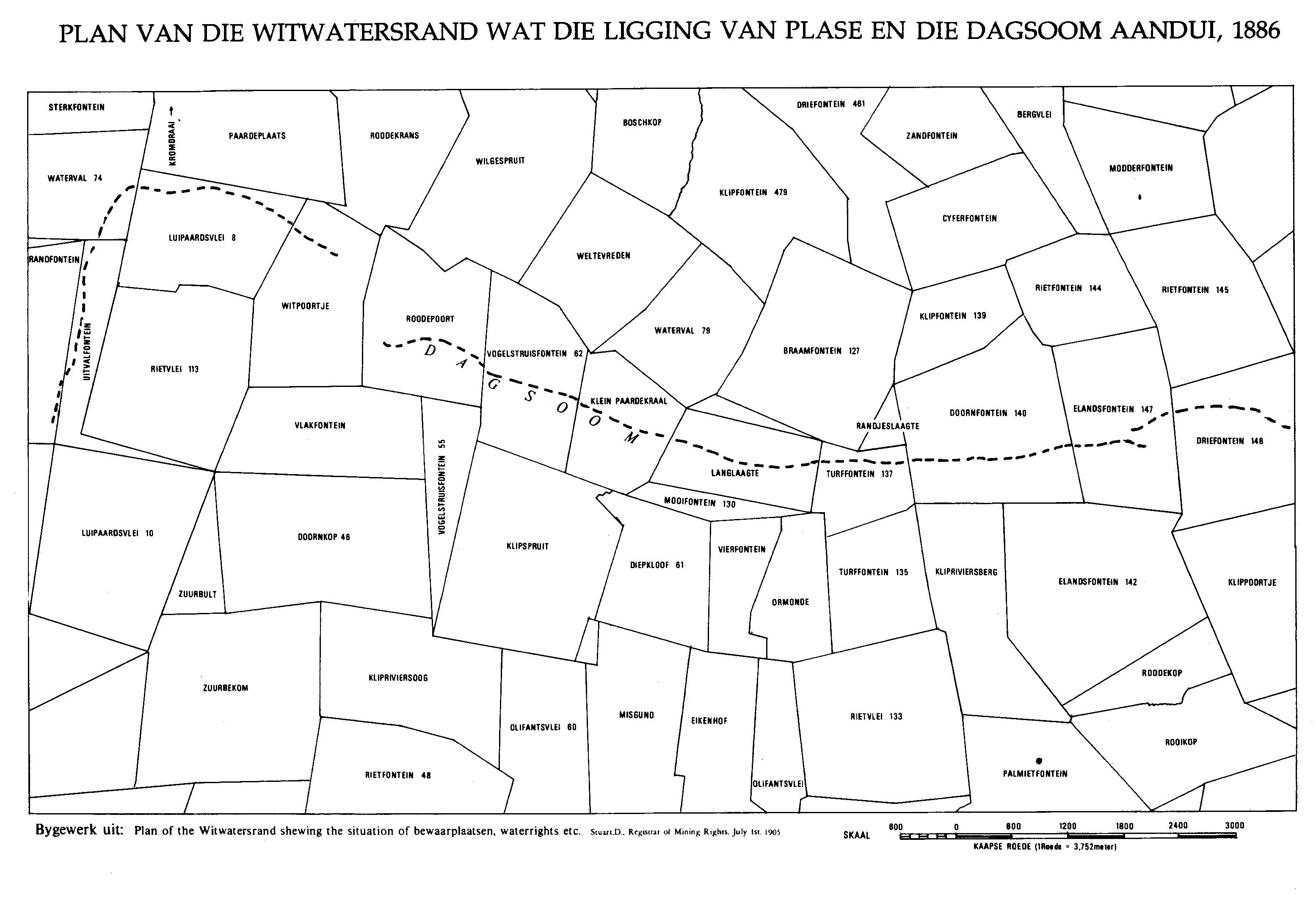 The map shows the original farms prior to 1886 as well as the location of the main reef of gold